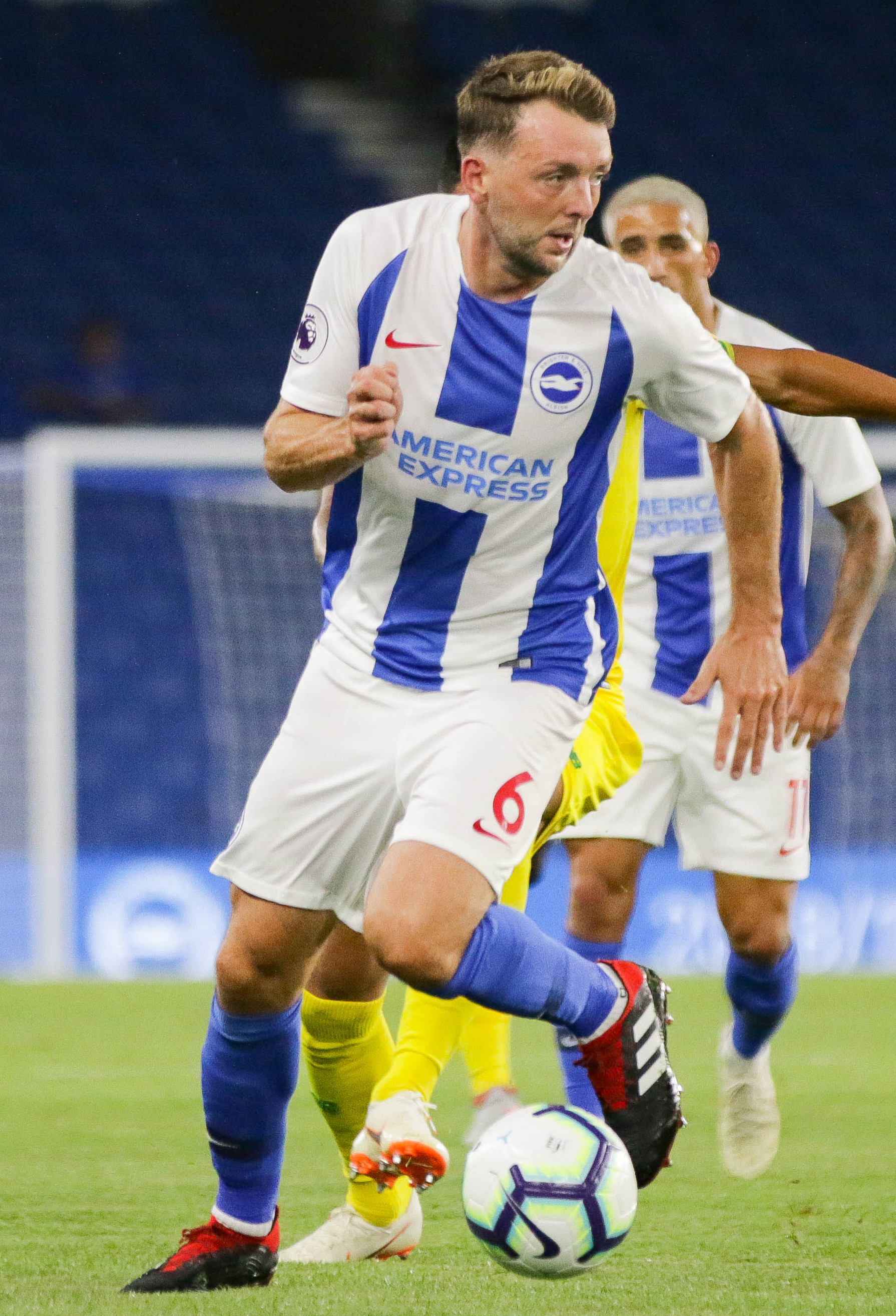 BHA v FC Nantes pre season 03 08 2018-921.jpg